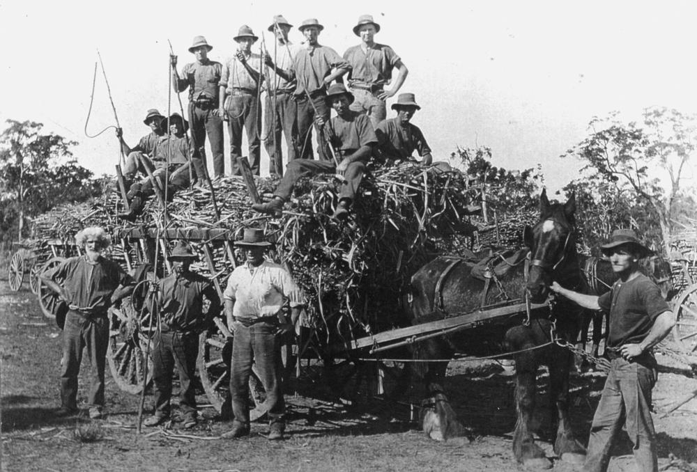 Group of teamsters at Walligan siding, 1924 season